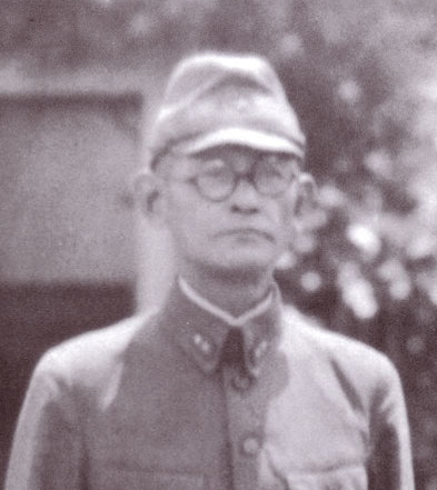 Lieutenant-general Haruyochi Hyakutake in front of his HQ in Rabaul